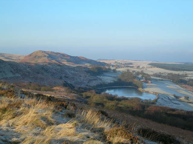 Lochspouts from Craigfin Hill. Lochspouts formerly provided the first piped water supply for the Maybole area, replacing the original wells.